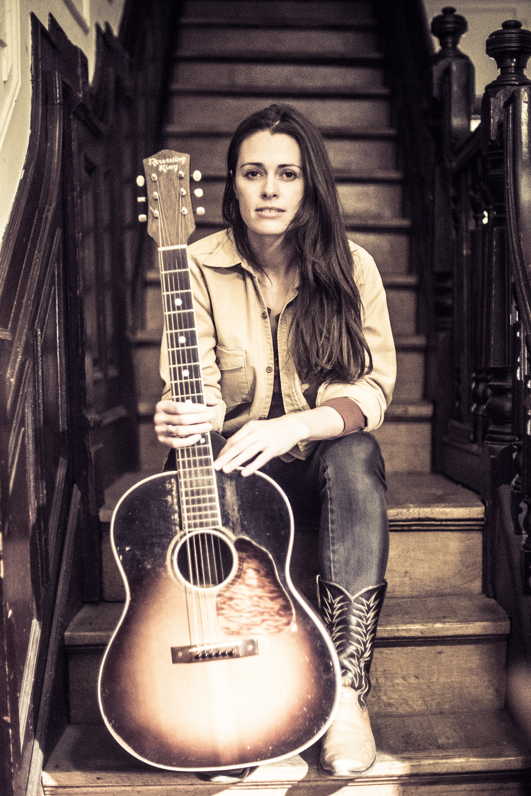 Caitlin Canty with Recording King guitar. Photo by Jay Sansone